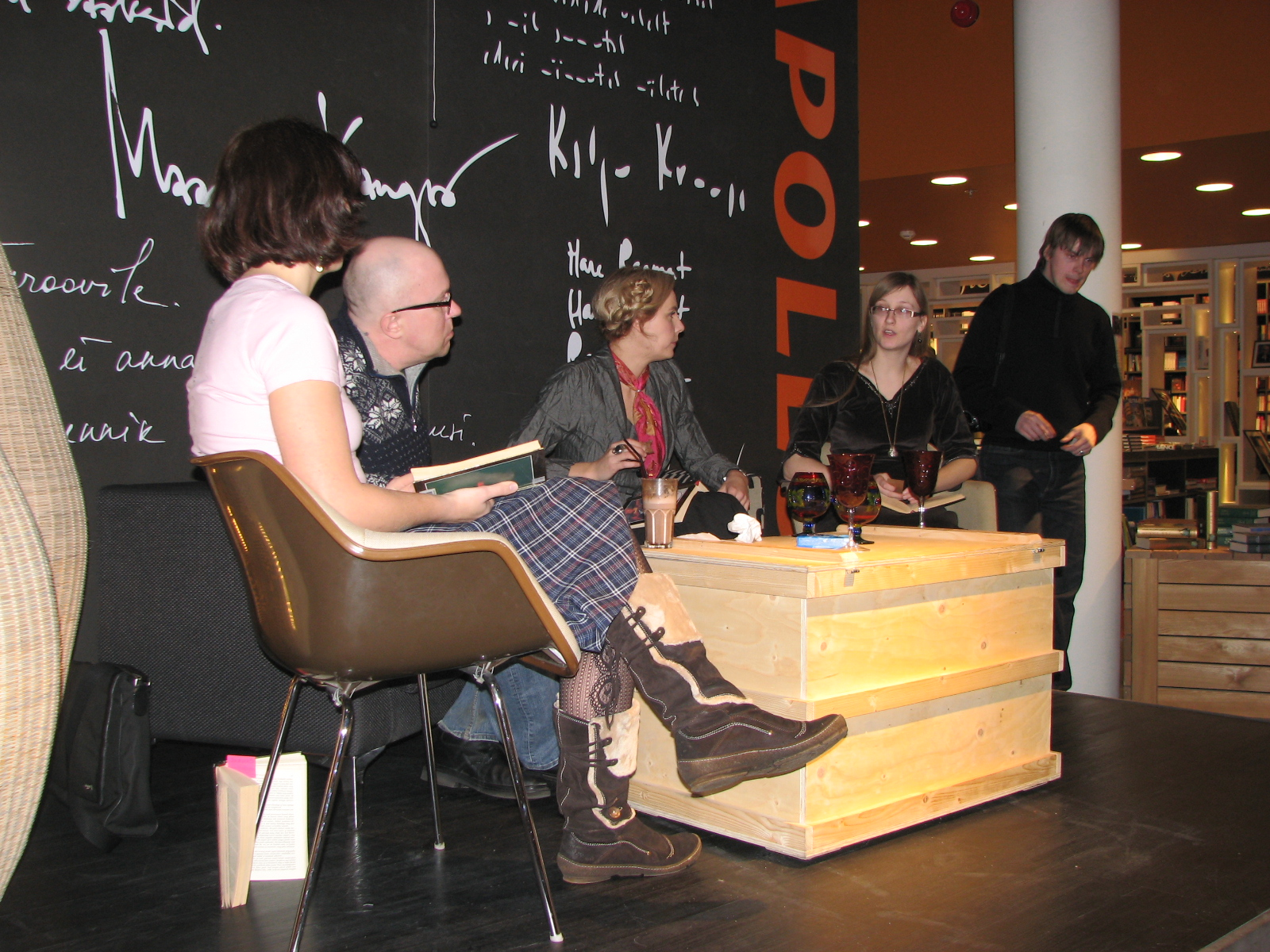 From left: Tindome, Mart Juur, Pille Minev, Inwe reading The Tale of Beren and Lúthien on International Tolkien reading day in Tallinn, Apollo book shop in Solaris centre.